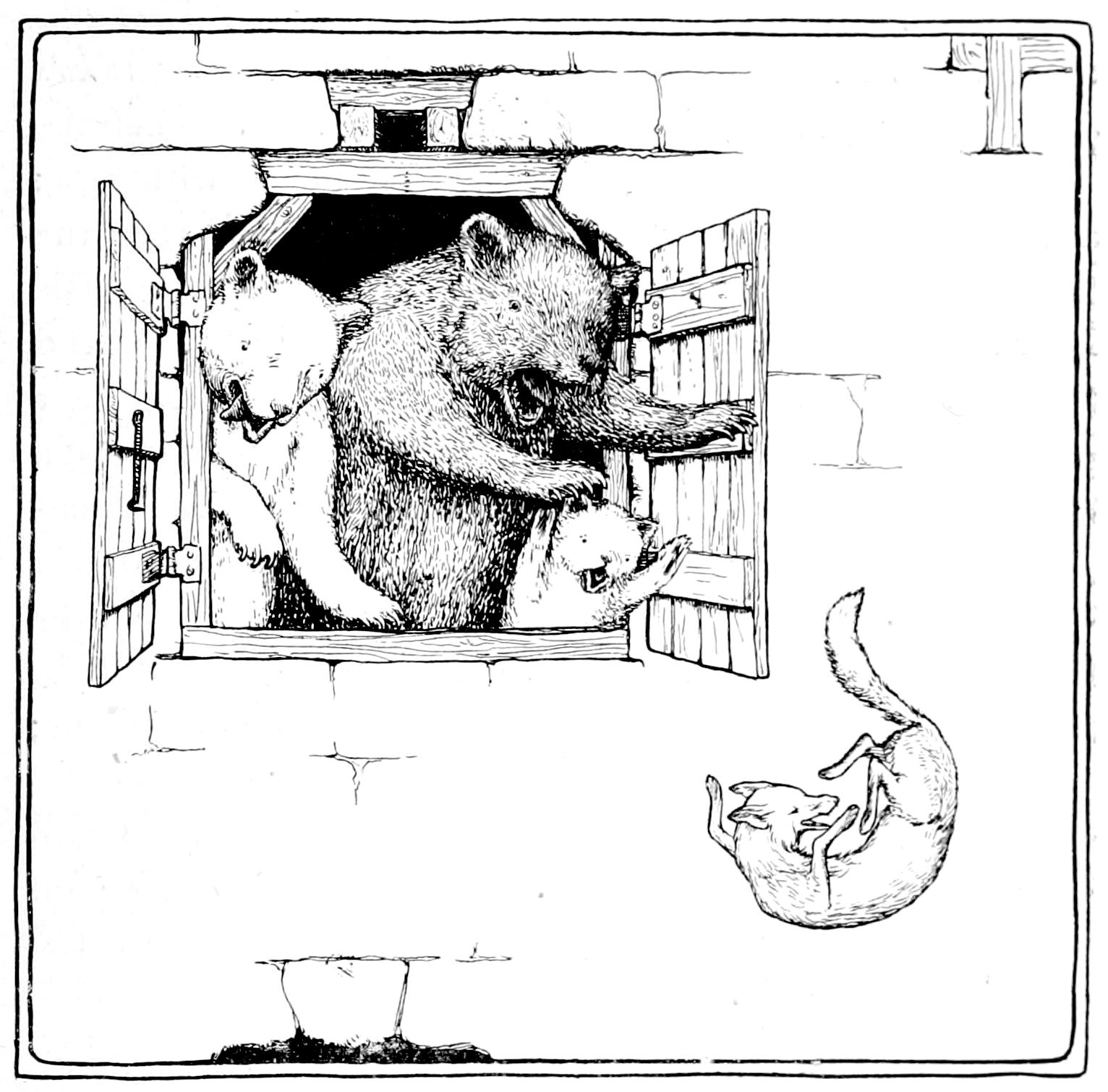 Scan illuatration on page of book in a series of fairy tales. A warning to children.